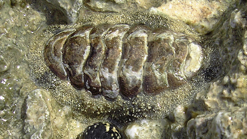 A chiton on a rock at a medium high tidal level in Le Gosier, Guadeloupe, W.I. length about 5 cm.